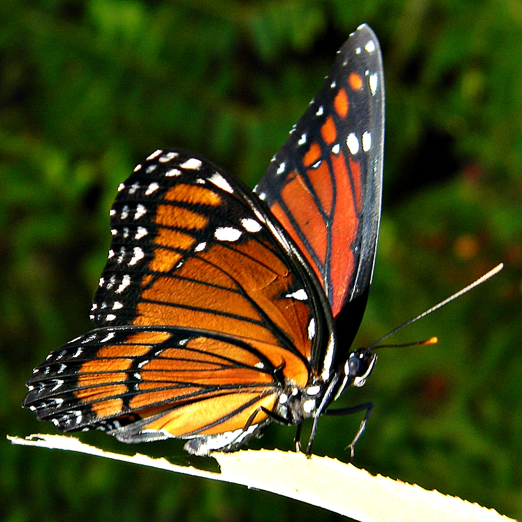 Limenitis archippus floridensis (On overexposed willow leaf) Juno Dunes Natural Area, Palm Beach County, Florida August 2010 Her short video is here